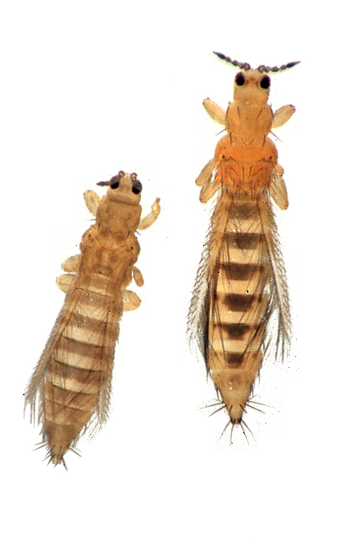 Smaller, tan thrips on left is the onion thrips (Thrips tabaci). Larger yellowish thrips on the right is the western flower thrips (Frankliniella occidentalis).